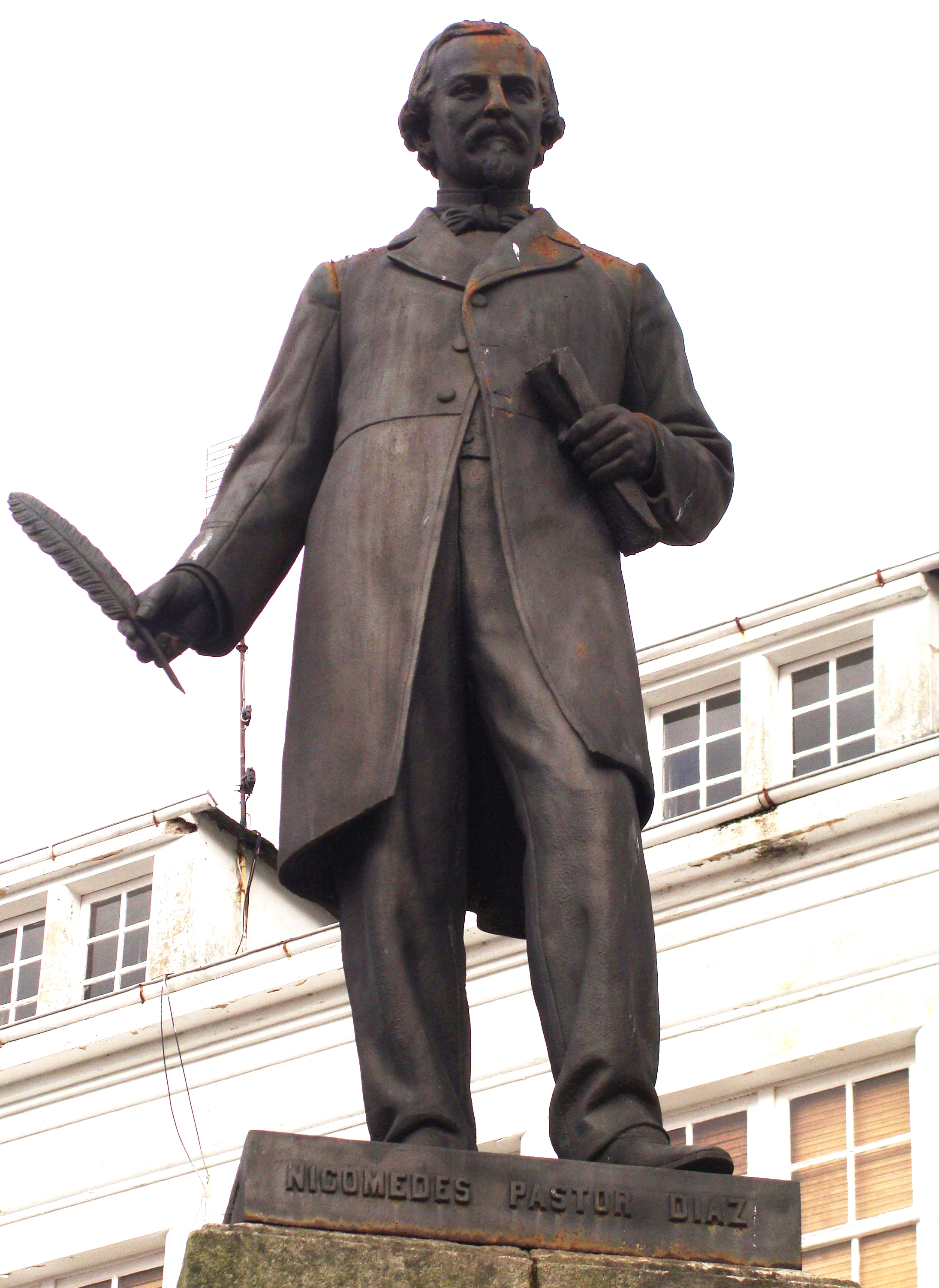 Statue of Nicomedes Pastor-Díaz in Viveiro, Lugo, Galicia, Spain